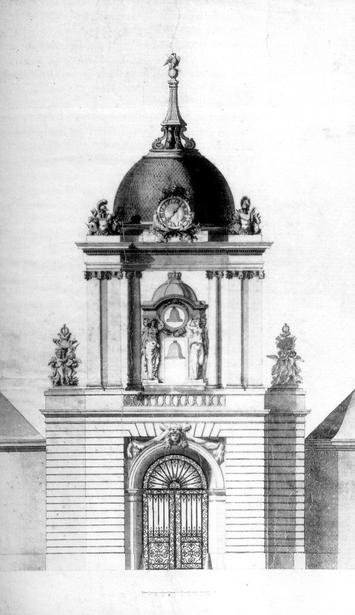 Elevation Fortune portal, city palace Potsdam, Germany